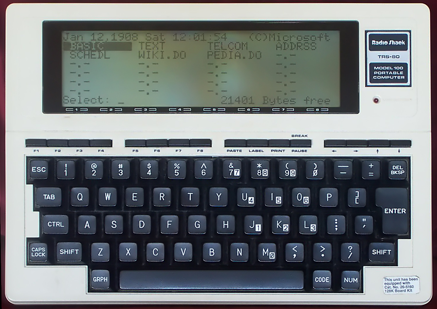 Radio Shack TRS-80 Model 100 Portable Computer, Cat. No. 26-3802, S# 303012845, displaying a raging case of Y2K. Sticker on the corner seemed the height of wacky humor in 1984: the 26-5160 memory kit was for a Tandy 2000, ho ho.